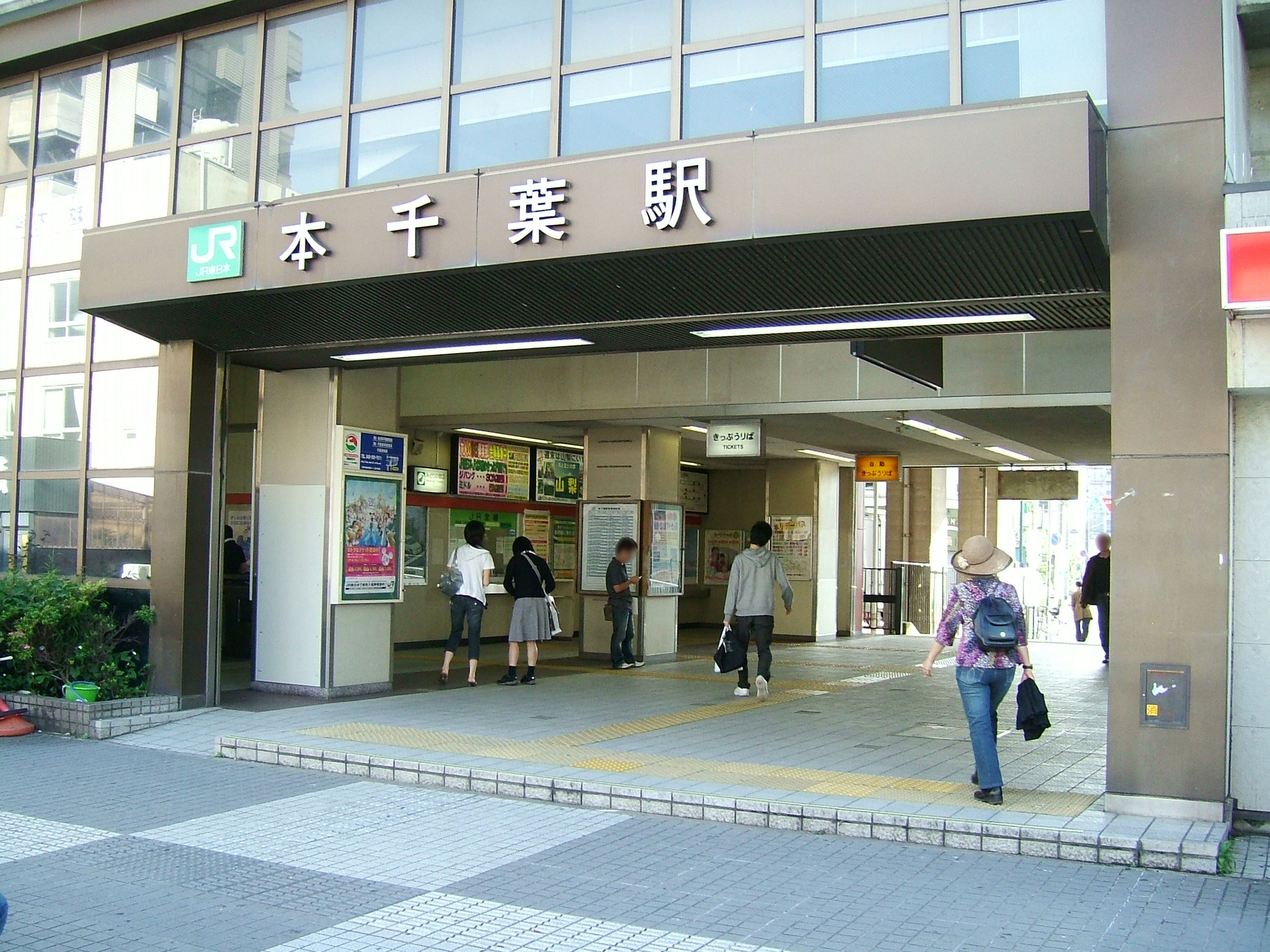 Hon-Chiba Station entrance (East Japan Railway Sotobō Line)